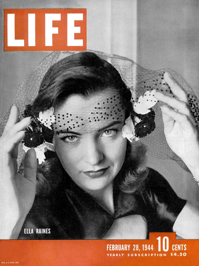 Front cover of the February 28, 1944, issue of Life magazine, featuring Ella Raines